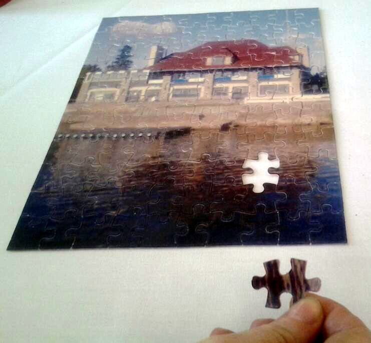 Britannia Yacht Club Clubhouse as a puzzle. I took a photo of the Britannia Yacht Club, Ottawa, Ontario, to a store which turned it into a 110 piece puzzle. I then completed the puzzle at the Britannia Yacht Club.